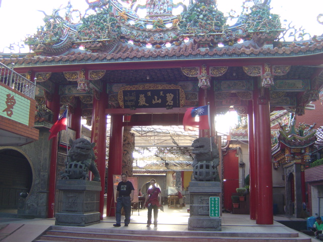 Gate of Bishanyan Temple, Taipei, Taiwan.